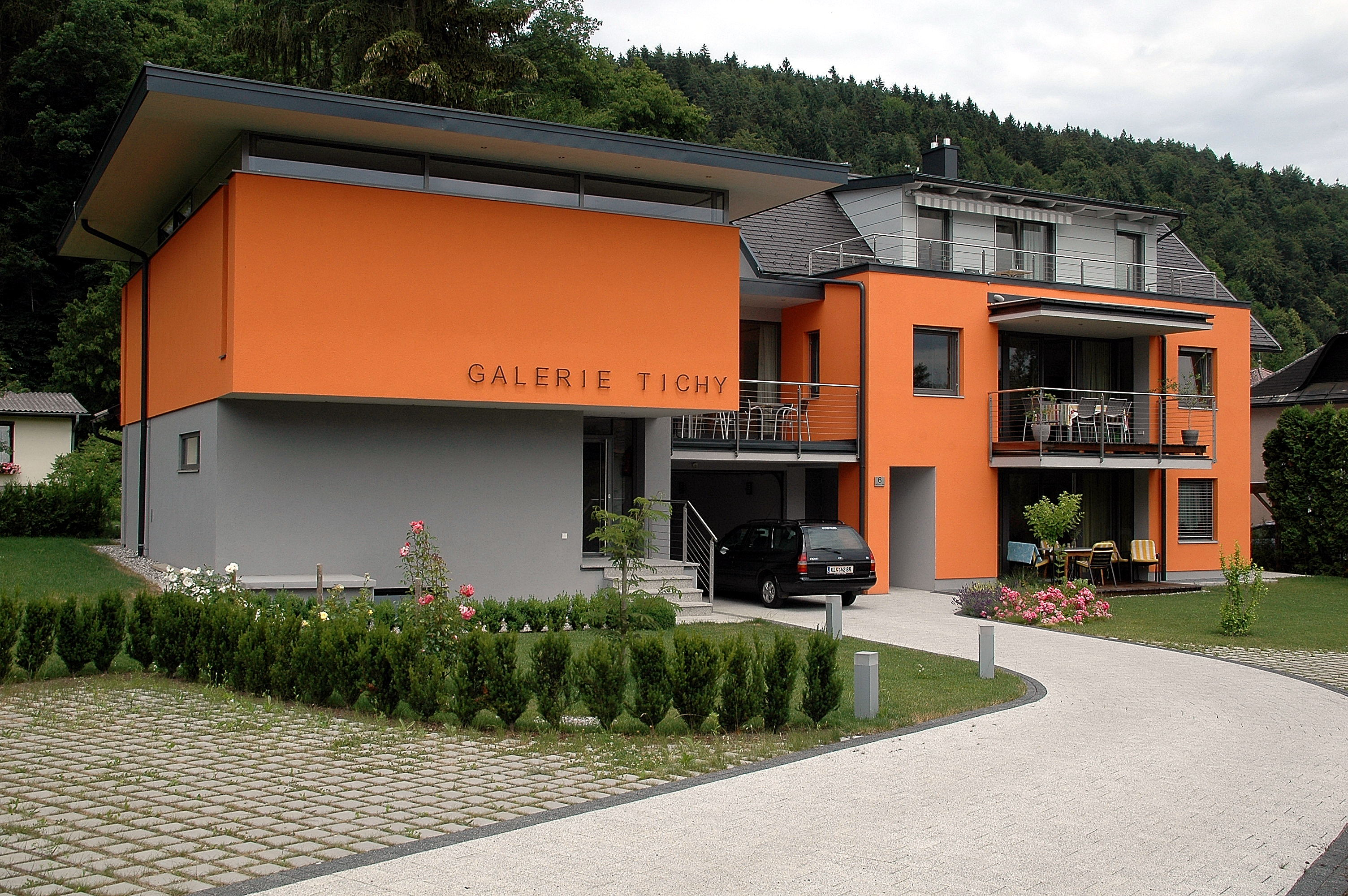 Galery Tichy at Poertschach, Carinthia, Austria